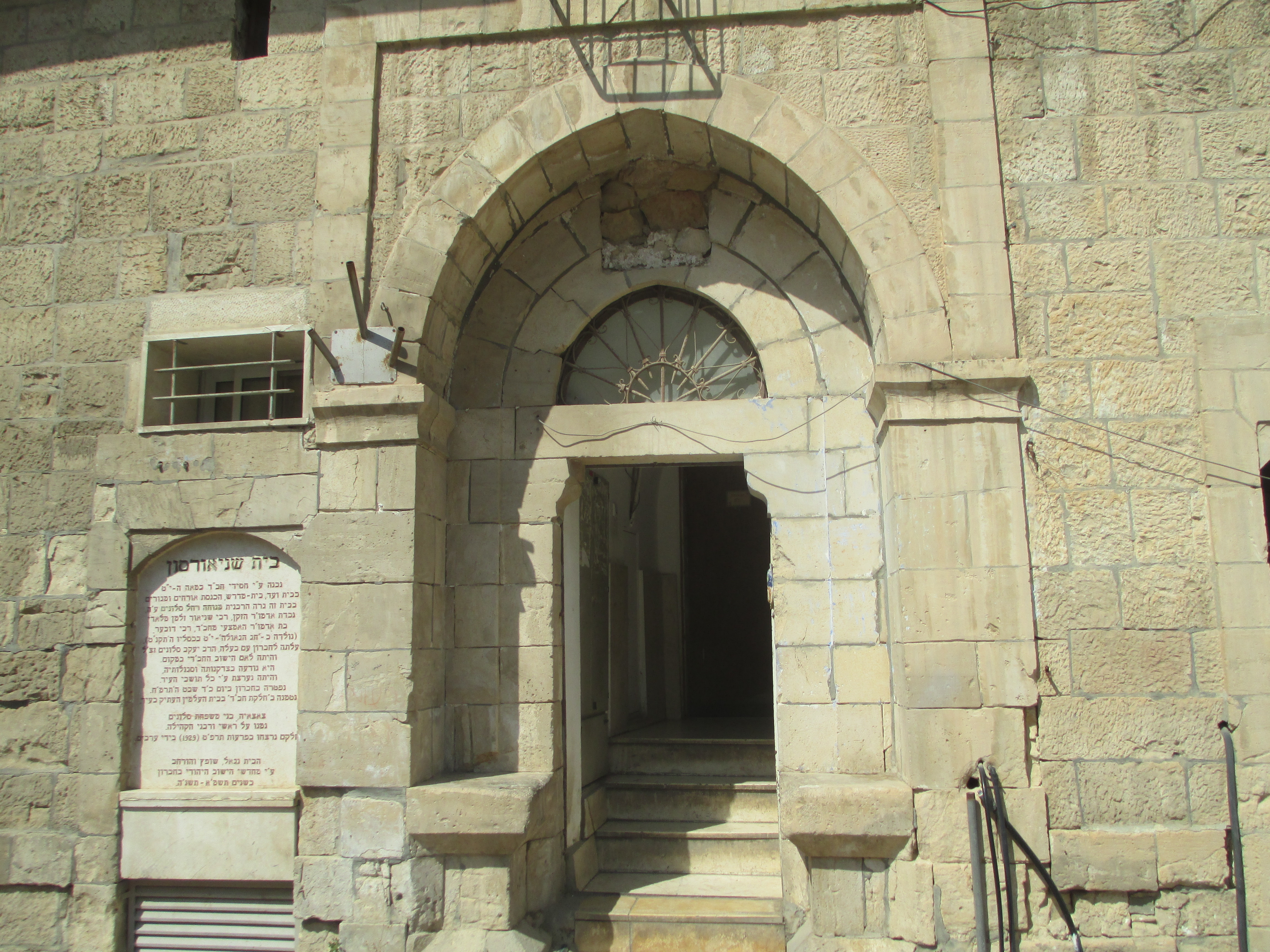 Shneorson building in Hebron